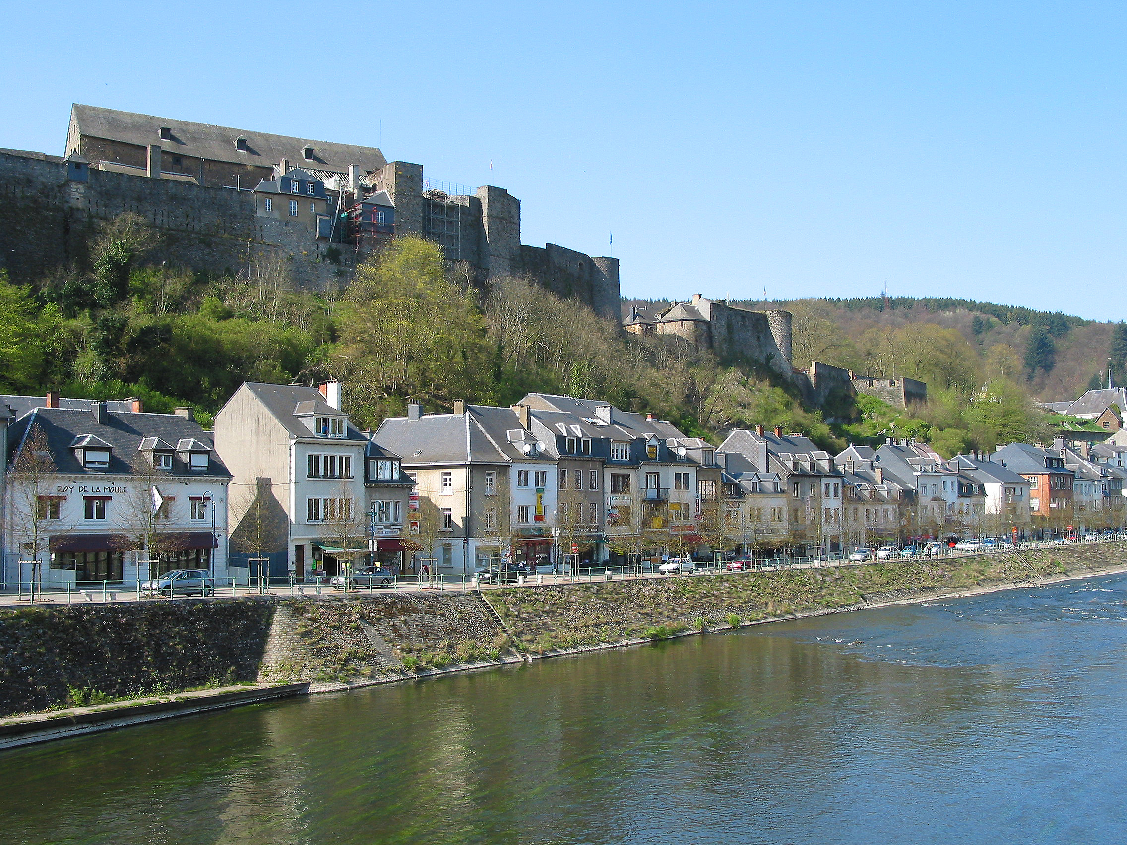 Bouillon (Belgium): the Semois river, the city and the fortified castle (10th–16th centuries).